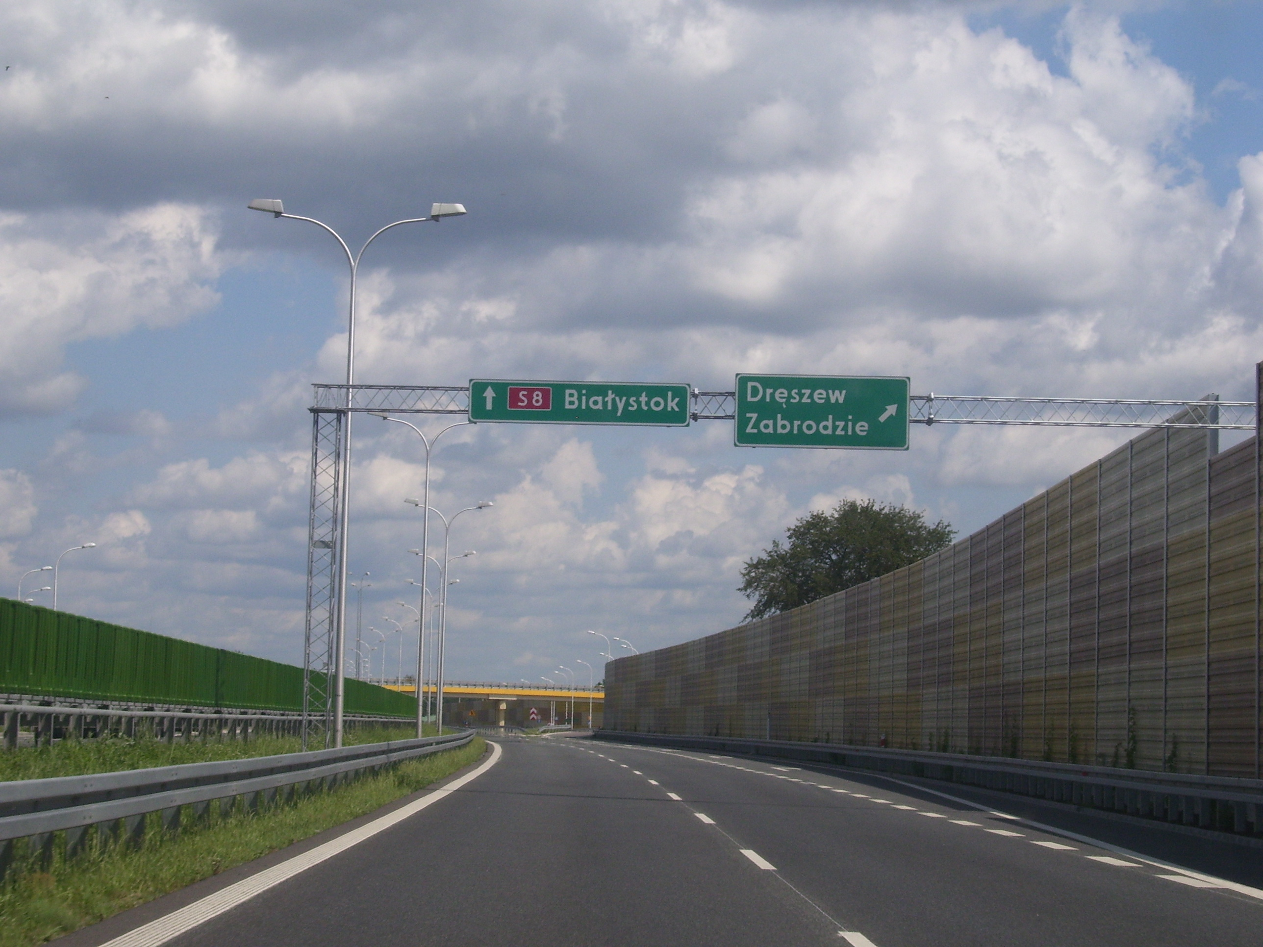 DK8 (Poland)